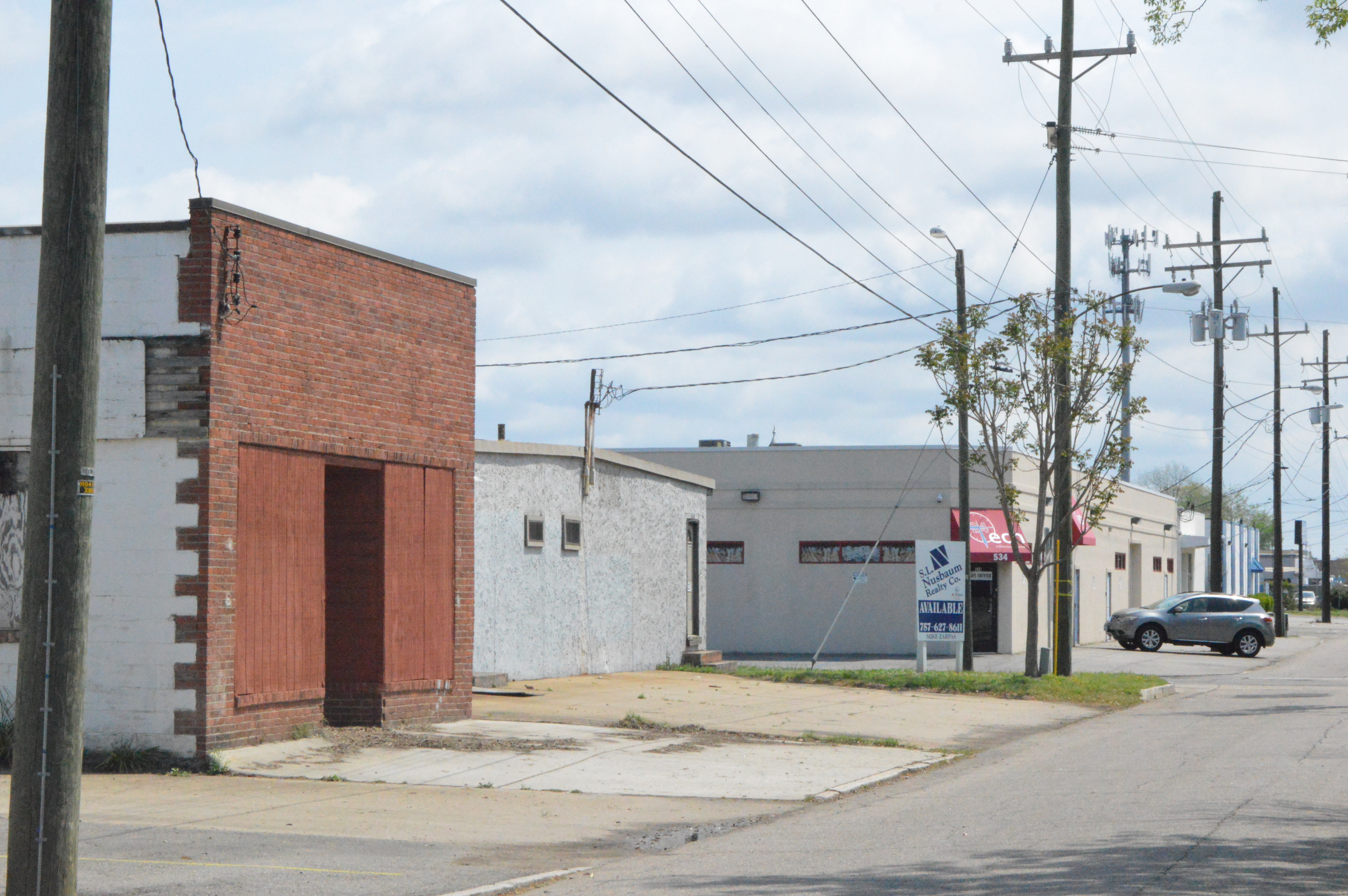 Industrial buildings on the northern side of 24th Street, looking toward the Newport Avenue intersection, in Norfolk, Virginia, United States. This block is part of the Norfolk and Western Railroad Historic District, a historic district that is listed on the National Register of Historic Places.